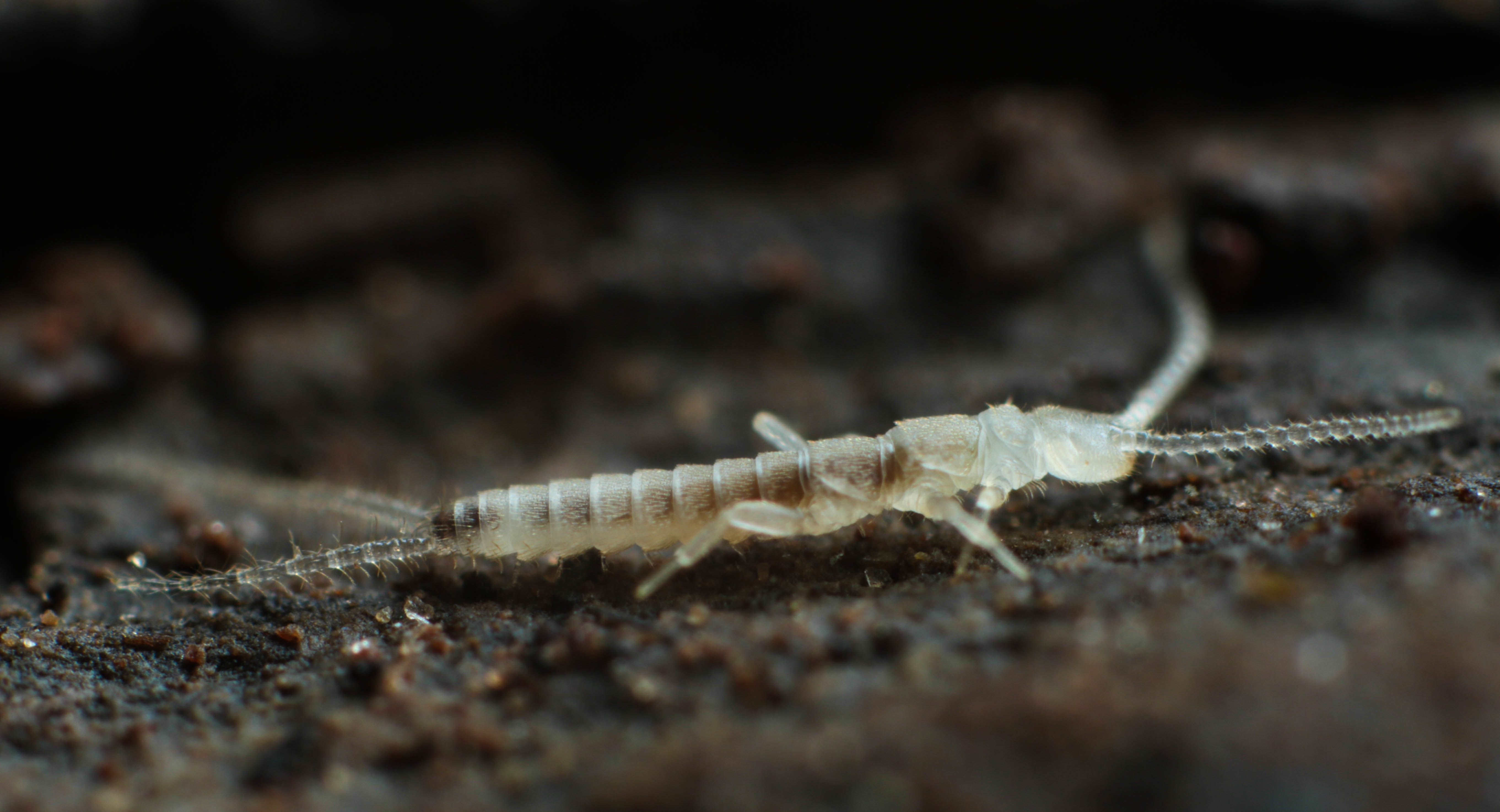 A dipluran of the Campodeidae family. Original description on Flickr: One on my 'really difficult to take photos of' list that I periodically have a go at and try to improve on my last attempt. These really are tricky as they run incredibly fast and shift direction all the time and at around 3mm big, that's a lot of body to get in focus. So this is the first decent shot I've taken of one. Just waiting for it to run in a straight line at the same time as being at such an angle that you can get a side shot has taken me 1000 shots and exactly a year. This was made even more difficult by me taking the photo at x8 to get that higher resolution. I took my last OK shots of a dipluran on the 23rd December 2012! This is a member of the Campodeidae, a mostly vegetarian kind of Diplura. This is worth viewing in LARGE to see the details of the curious lateral styliform appendages on the underside of the abdominal segments. These can also be found in Protura, another non-insect hexapod.